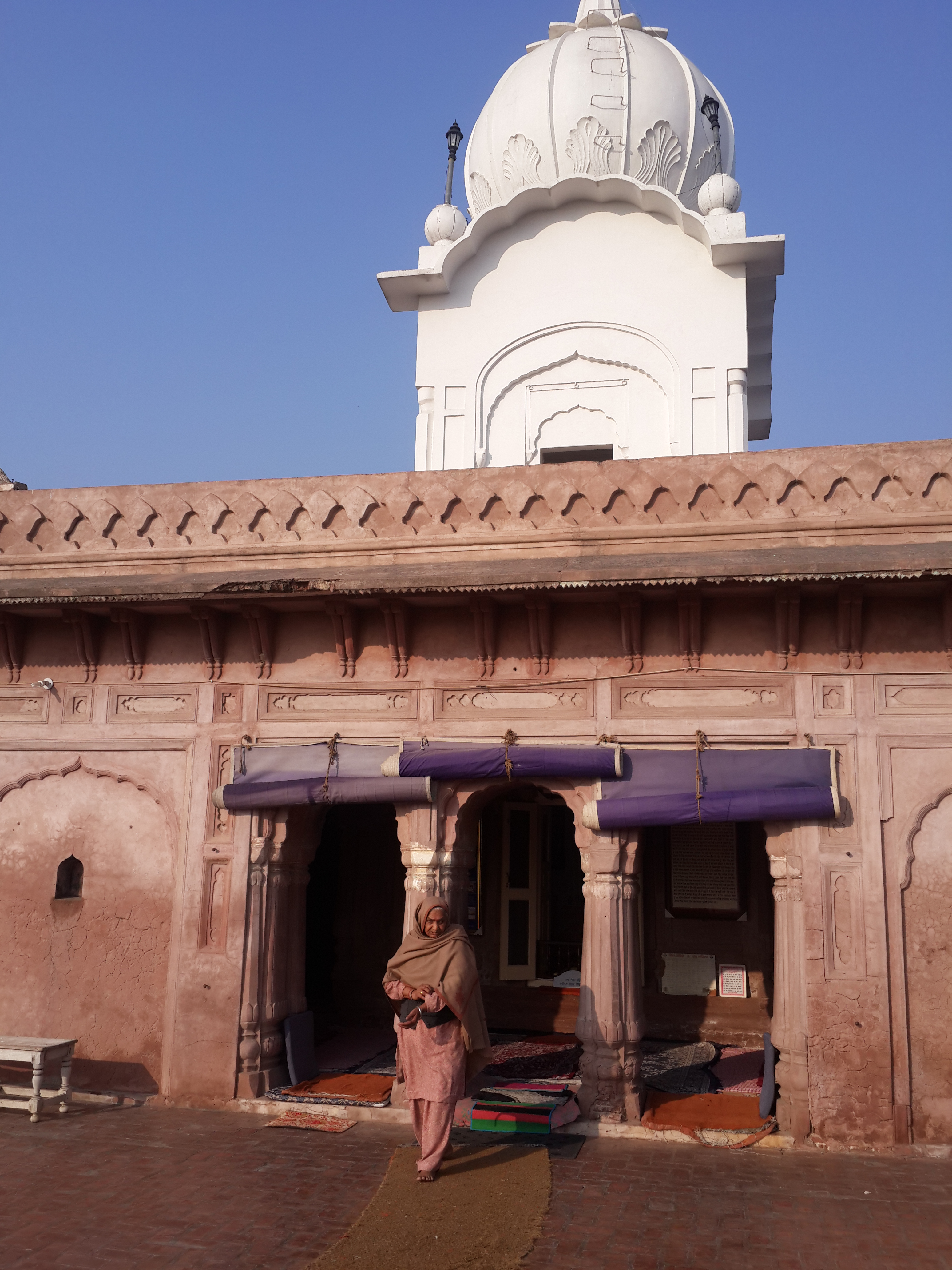 Qila Mubarak